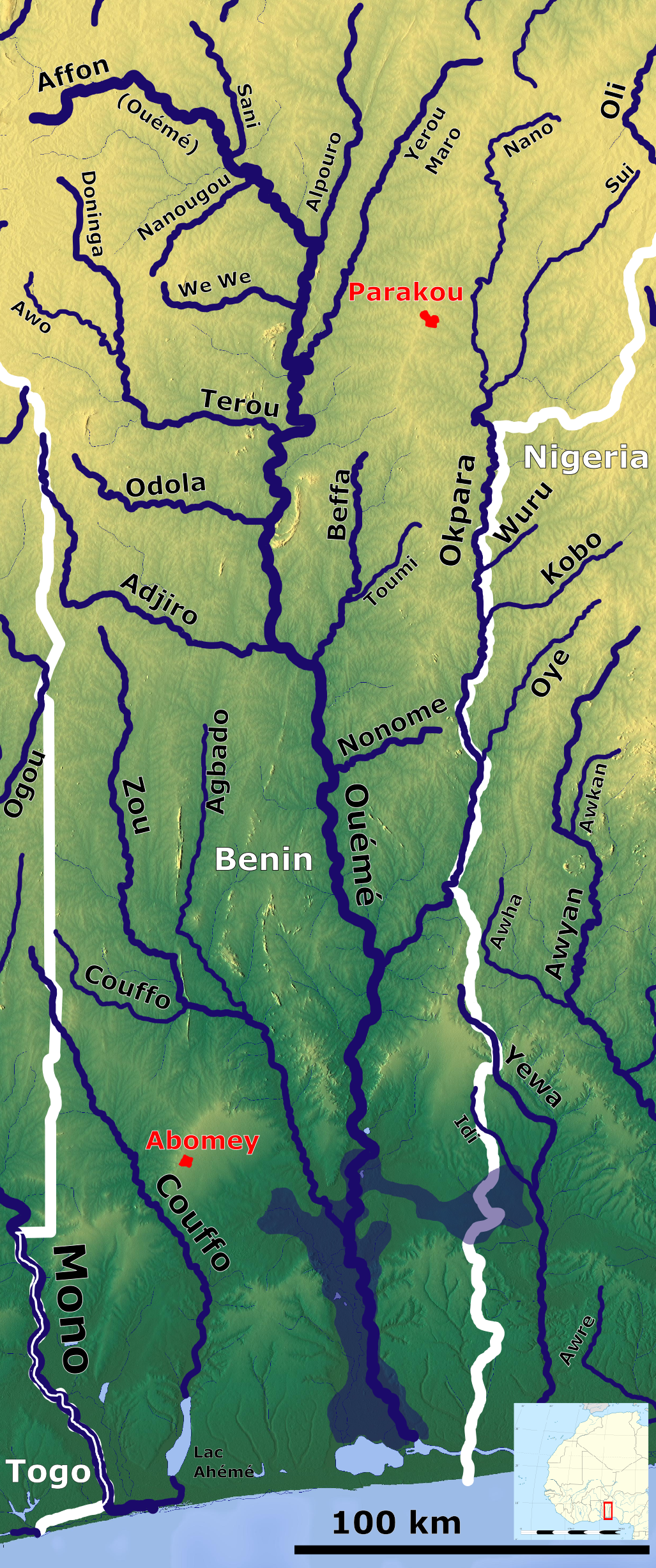 The Oueme river system